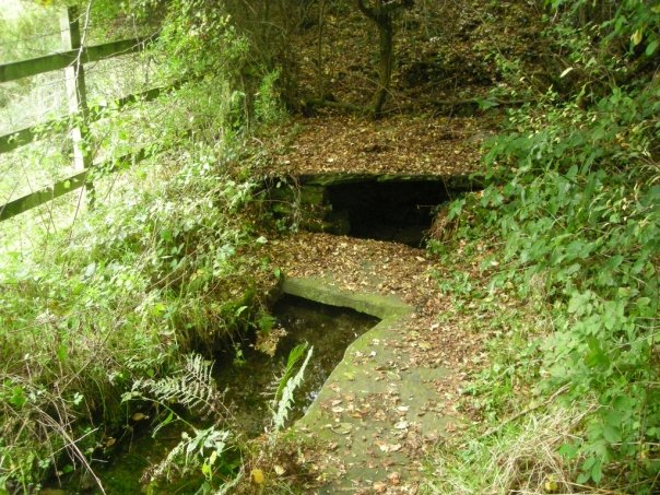 Ffynnon Wen or the White Well This natural spring rises in a wooded hollow set back from the main road into Llangybi. It was mentioned by writer Edward Lhuyd in the seventeenth century, but its use as a holy well is likely to be of much earlier origin.